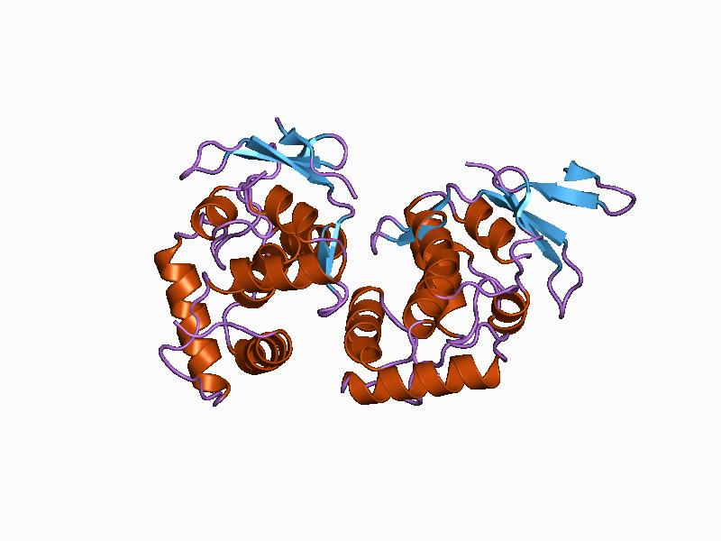 Cartoon representation of the molecular structure of protein registered with 1ae9 code.